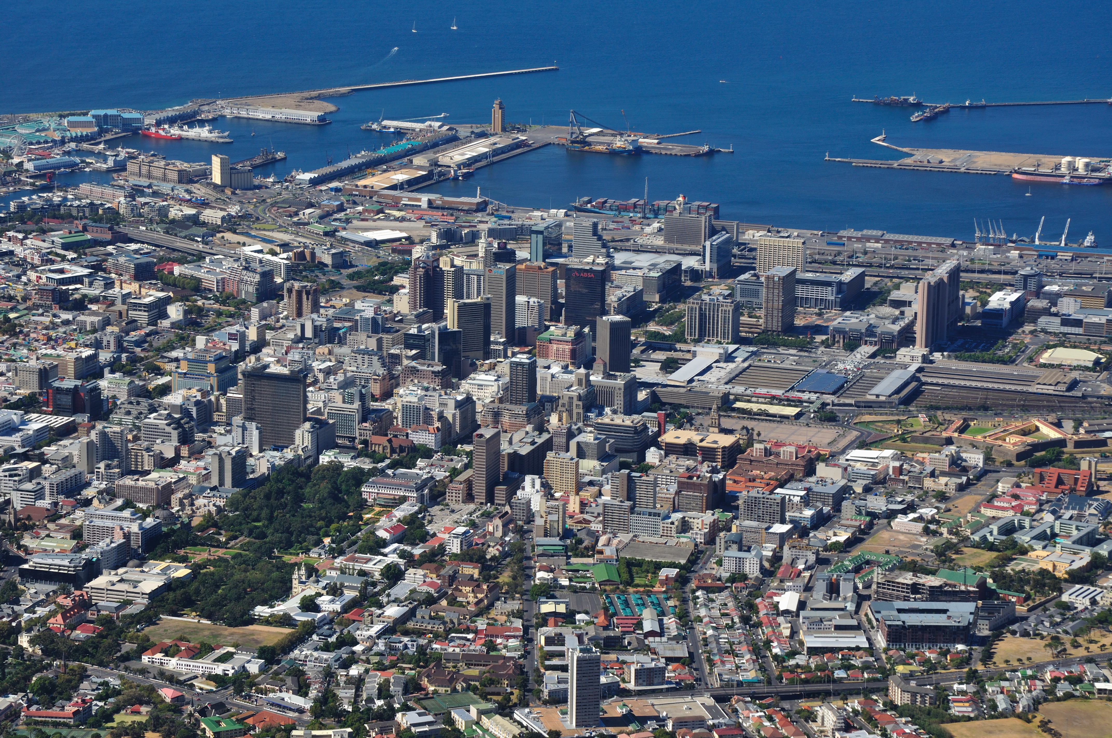 South Africa, views from Table Mountain